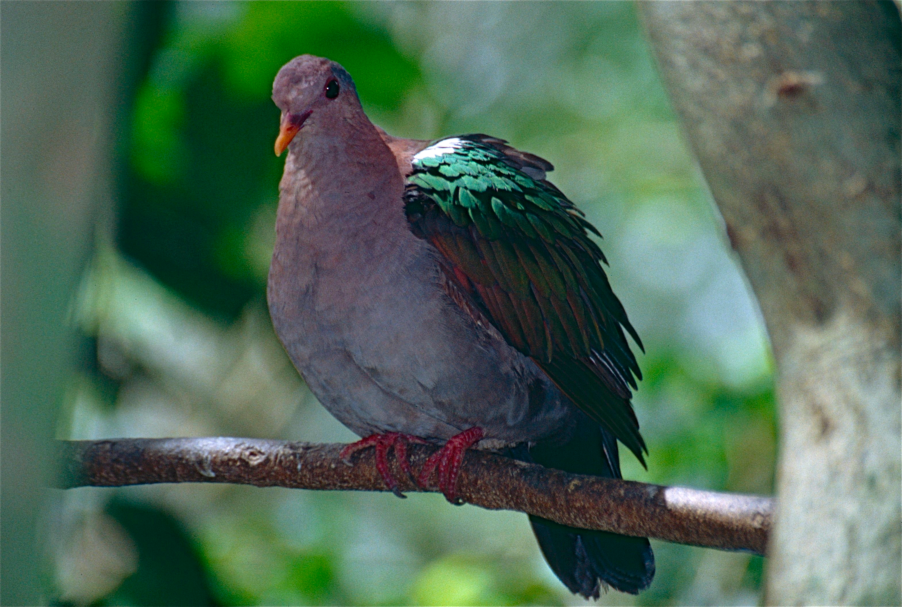 Birdworld, Kuranda, North Queensland, AUSTRALIA Scanned Slide from Nov 2000